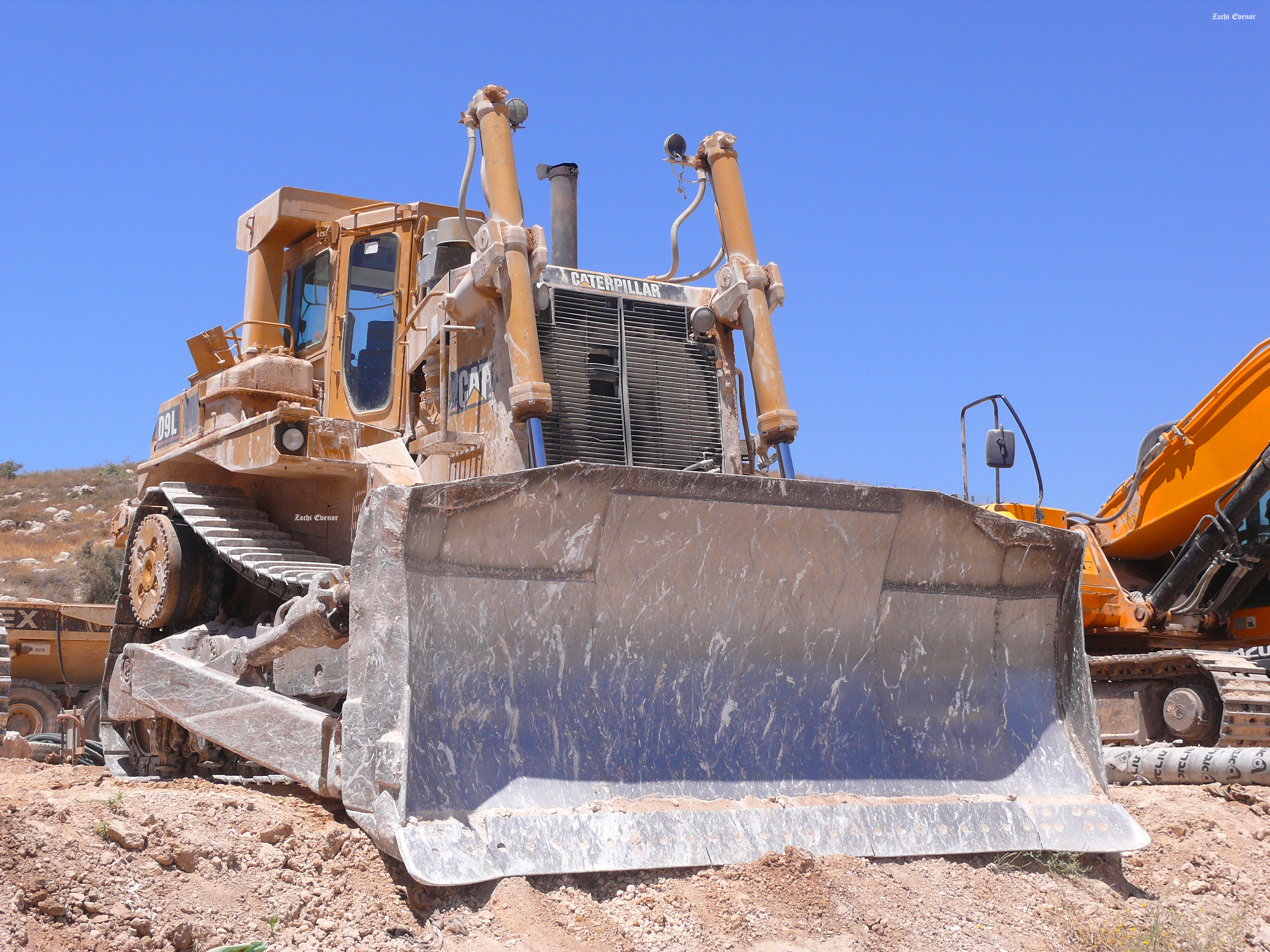 Caterpillar D9 bulldozer - CAT D9L model - near a quarry in Israel